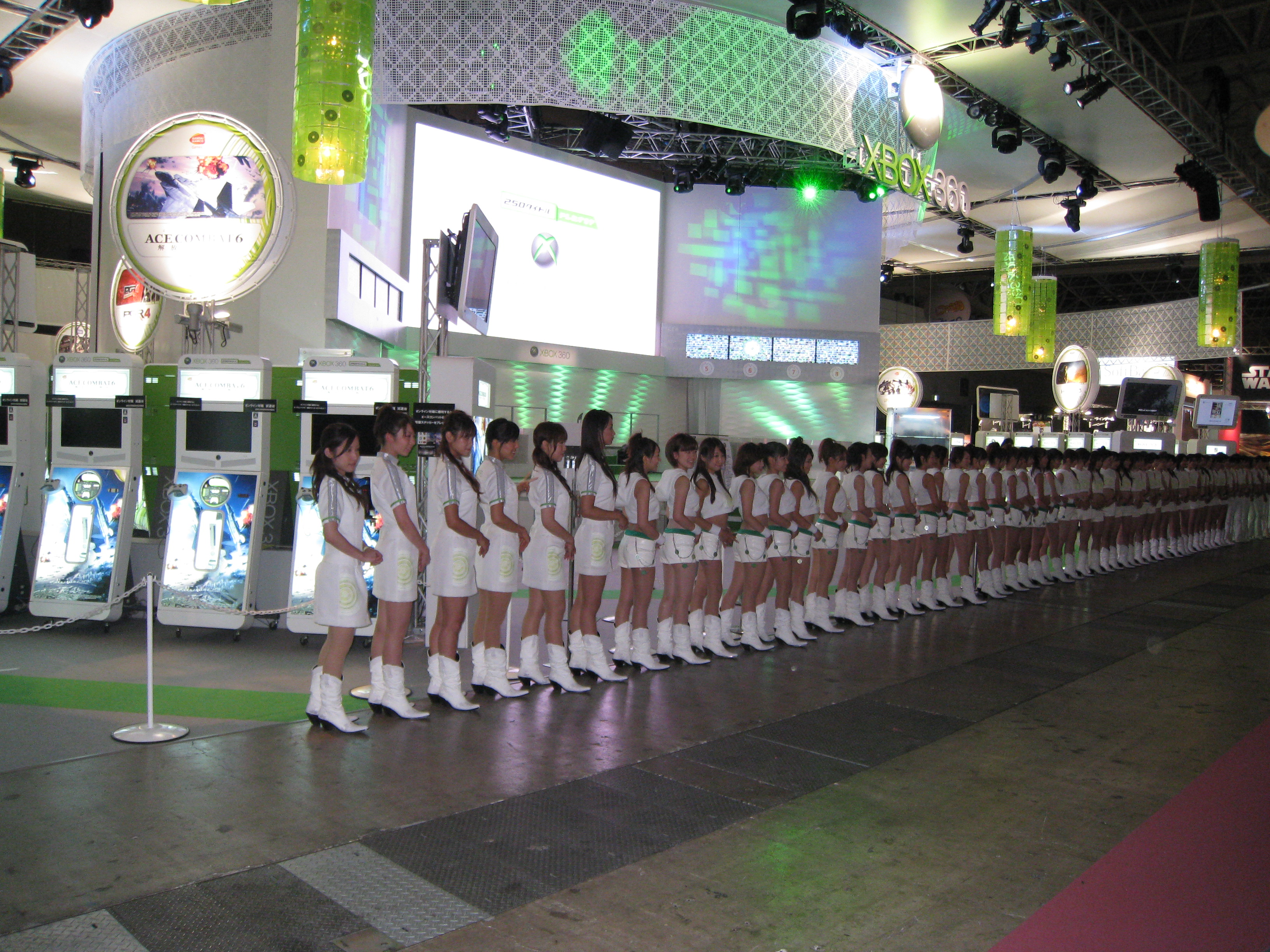 Promotional models at Xbox 360 booth, Tokyo Game Show 2007.